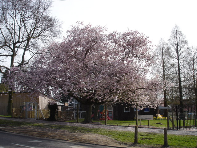 Hillside Community Primary School